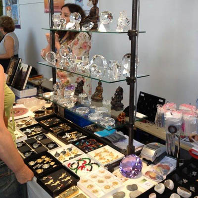 Cristal & Santé